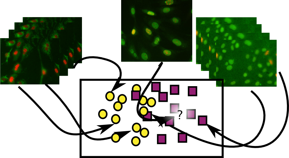 Diagram of nearest neighbor pattern recognition in the context of subcellular location analysis.